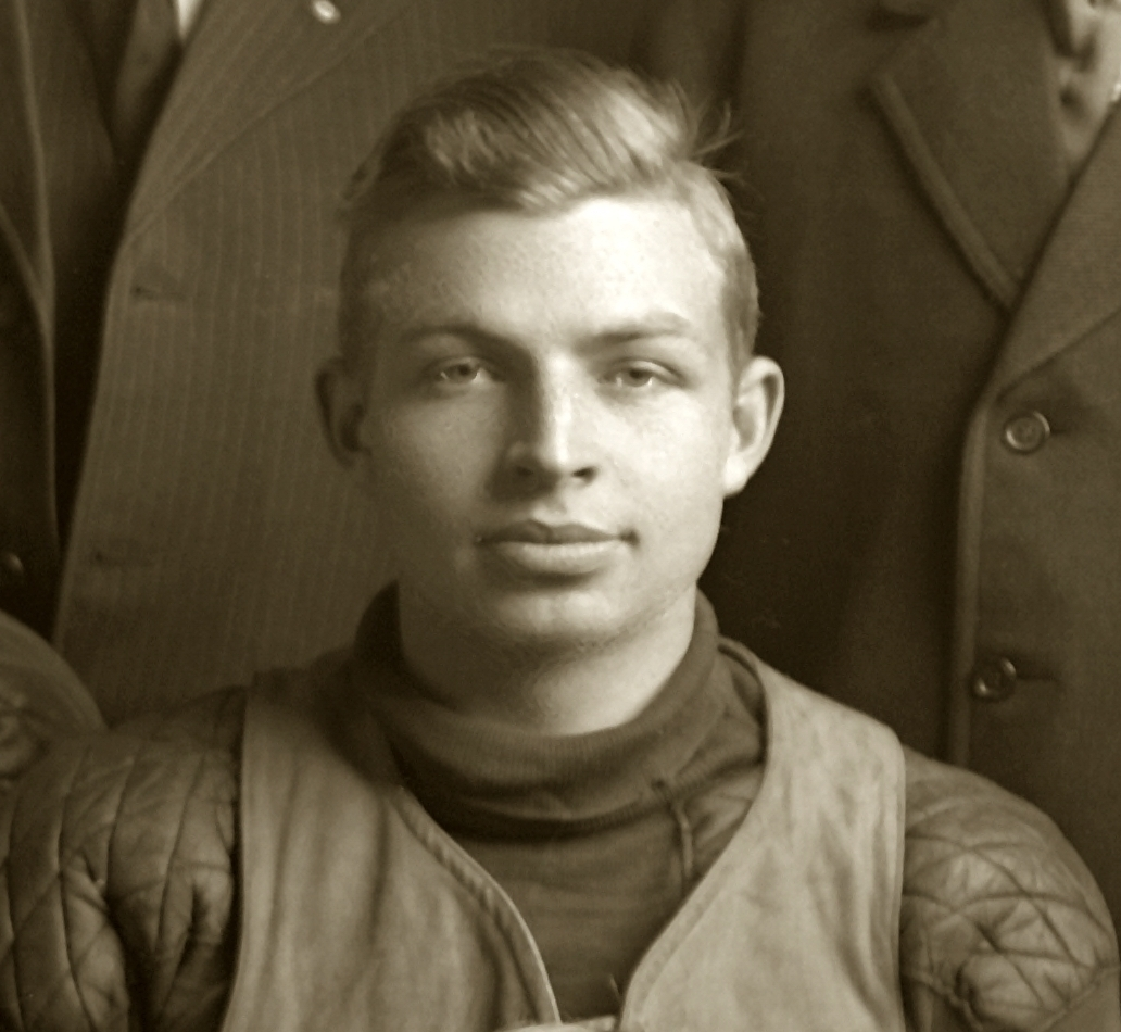 Photograph of Frederick Conklin